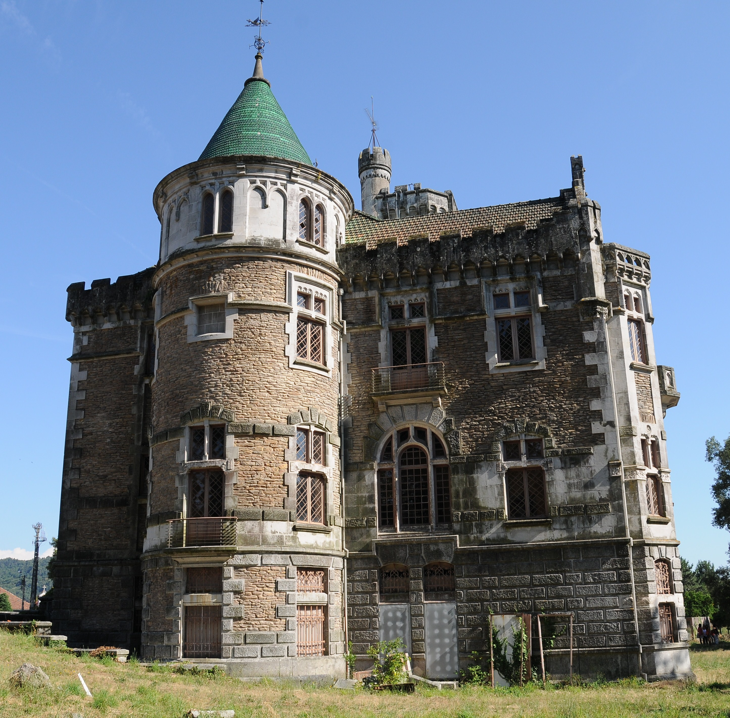 Dona Chica Castle in Braga, Portugal